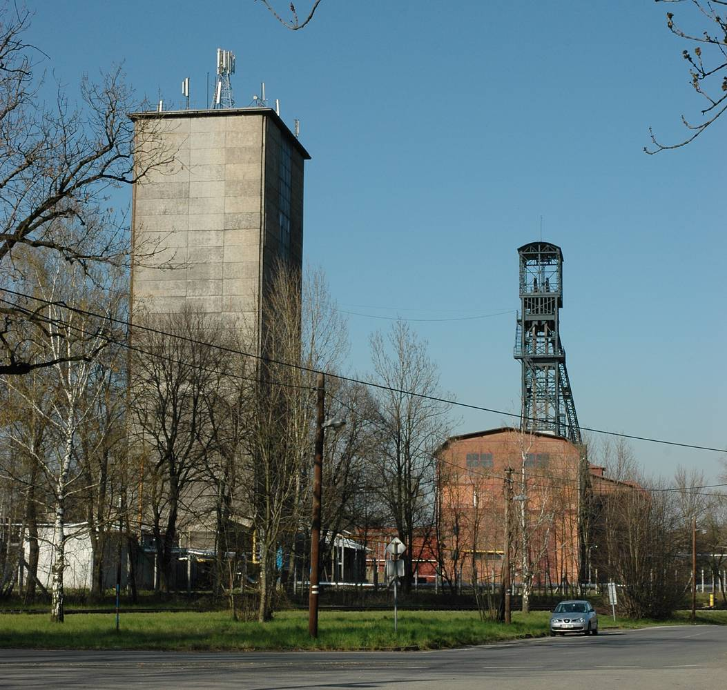 The former coal mine "Žofie" (Fučík 5) in Orlová-Poruba, Czech Republic